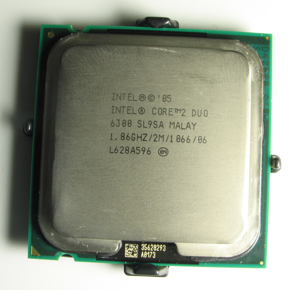 An Intel Core 2 Duo E6300 "Conroe" CPU with the OEM-provided integrated heat spreader still attached. The black plastic tabs visible on each of the four edges of the CPU correspond to a square piece of plastic which protects the electrical contacts on the base of the CPU during transportation and handling.